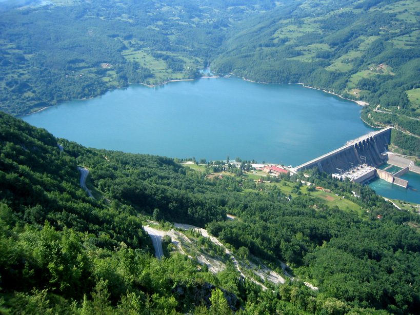 Perućac Lake near Bajina Bašta, Serbia